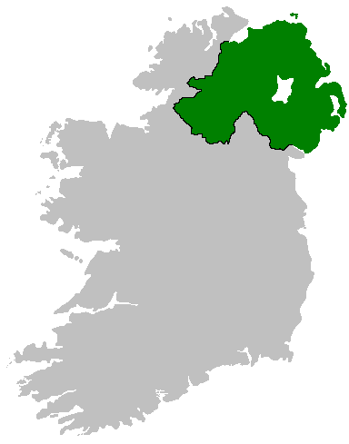 Area of the Police Service of Northern Ireland Category:Maps of police forces of Ireland